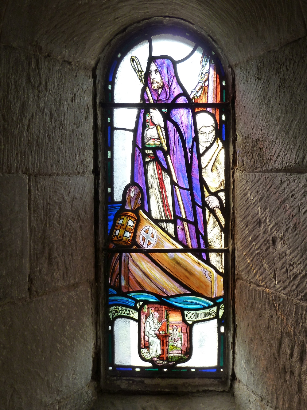 St Margaret's Chapel - Saint Columba. A depiction of St Columba in stained glass by Douglas Strachan installed in St Margaret's Chapel in Edinburgh Castle in 1922.